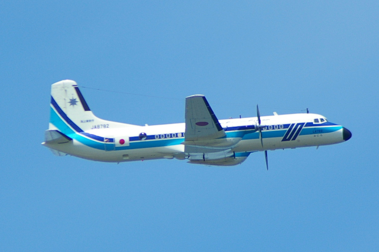 japan coast guard YS-11 "OJIRO".